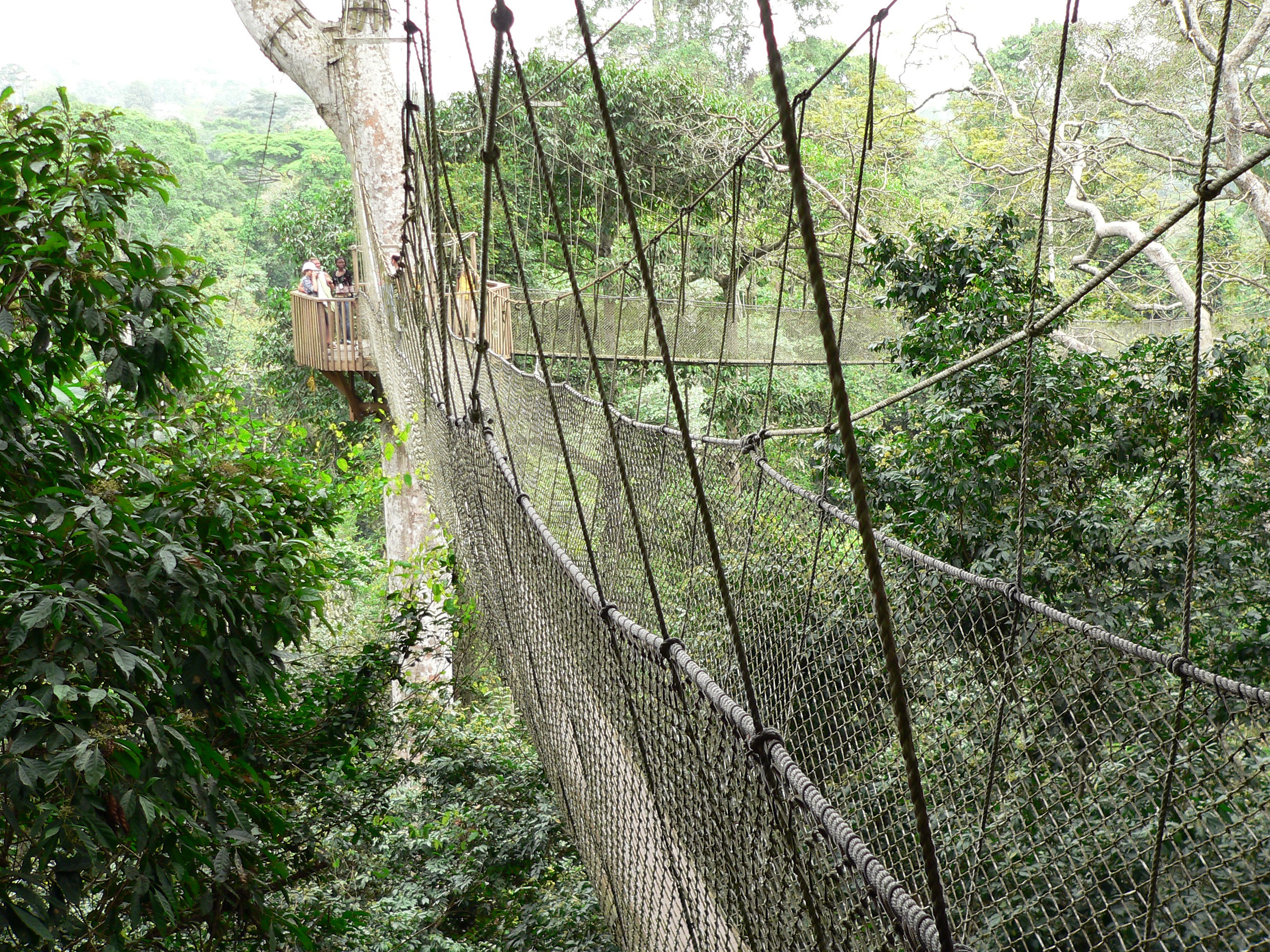 The canopy Walkway in the Kakum National Park in Ghana is the only Walkway in the top of trees in the whole africa.